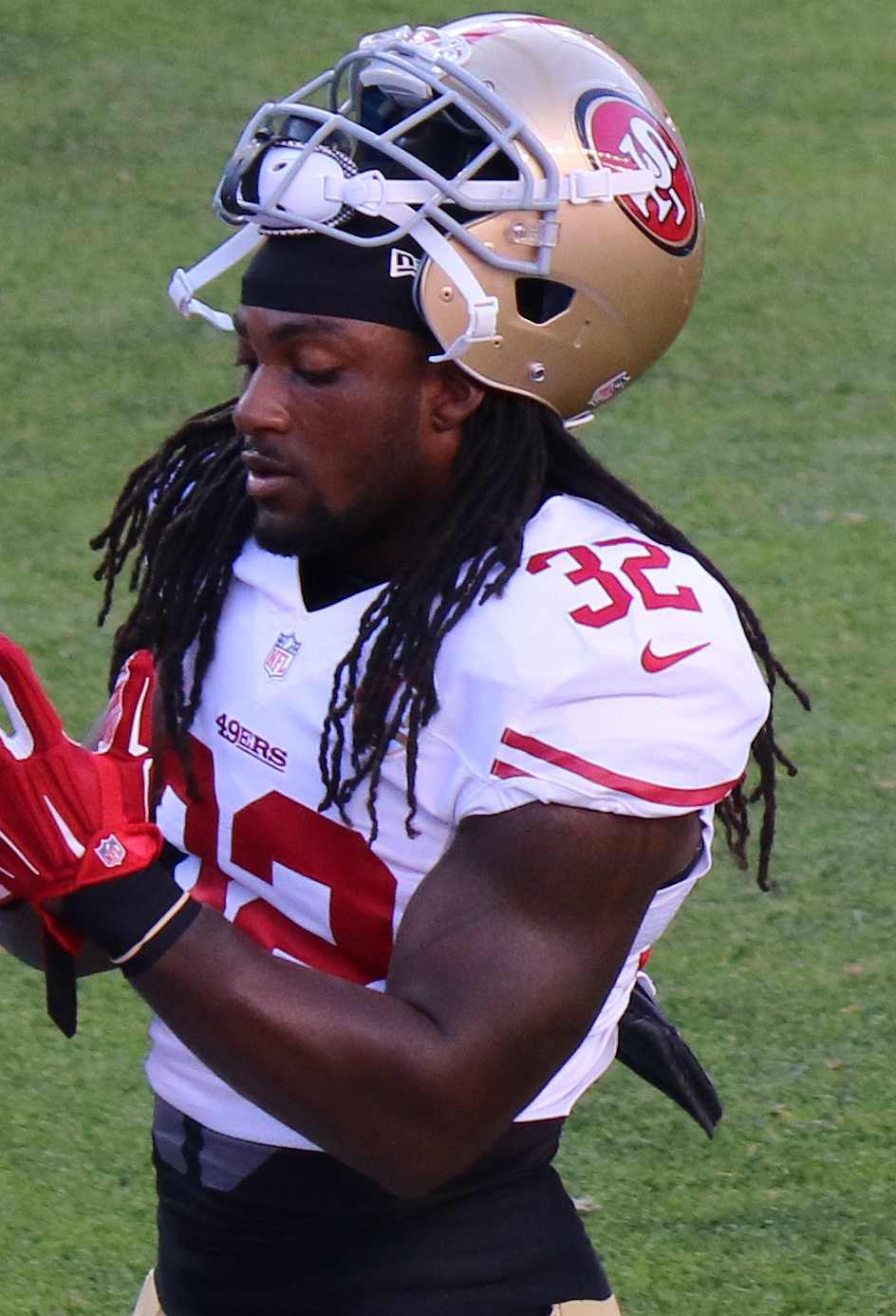 DuJuan Harris, a player on the National Football League.